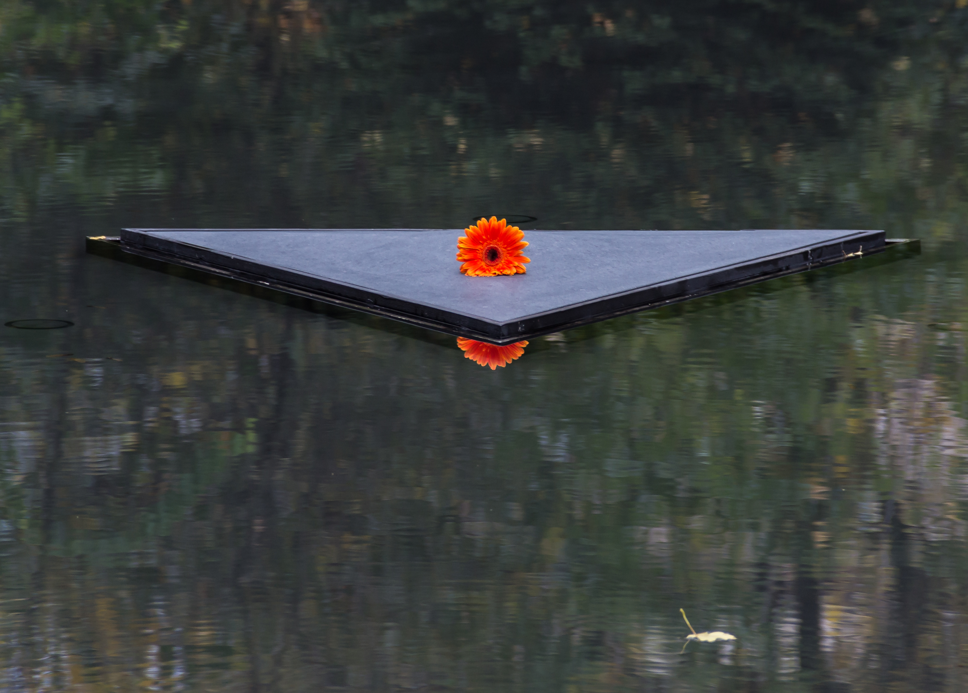 Memorial to the Sinti and Roma victims of National Socialism, Berlin, Germany Sculpture TitleDenkmal für die im Nationalsozialismus ermordeten Sinti und Roma EuropasArtistDani KaravanDate2012